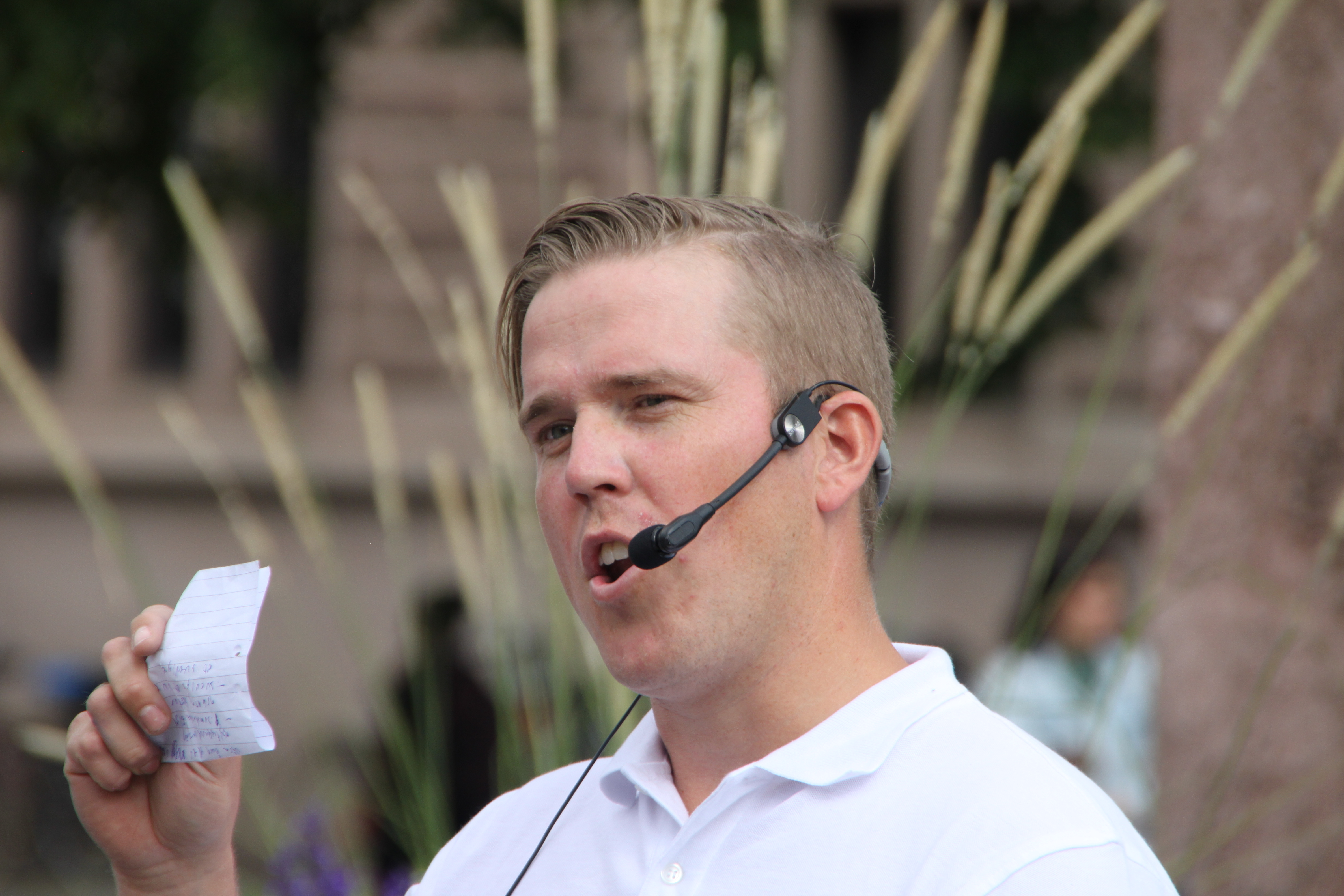 Jeff Ahl speaks at Alternative for Sweden's meeting in Gävle on 17 August 2018